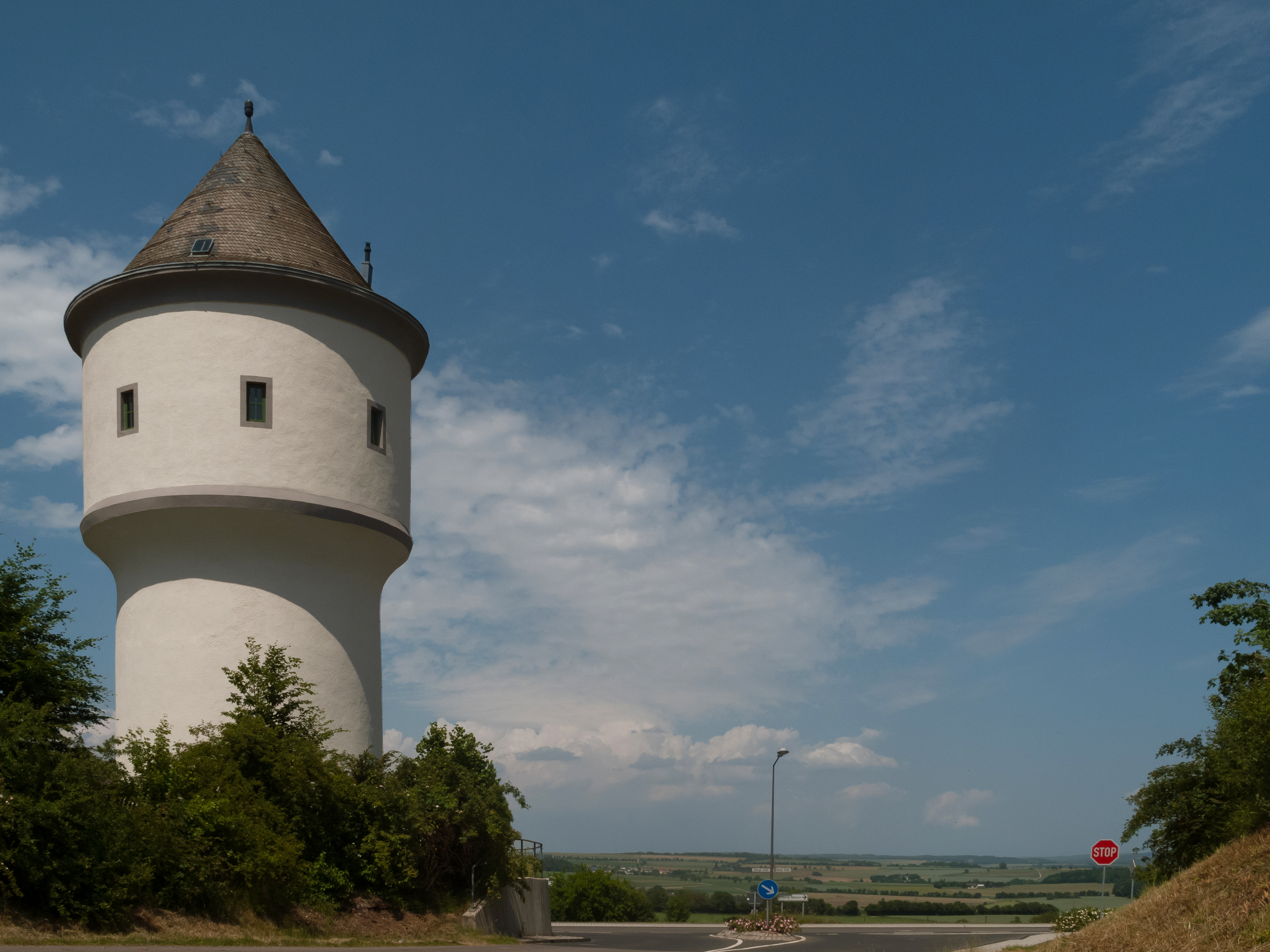 Mötsch, watertower